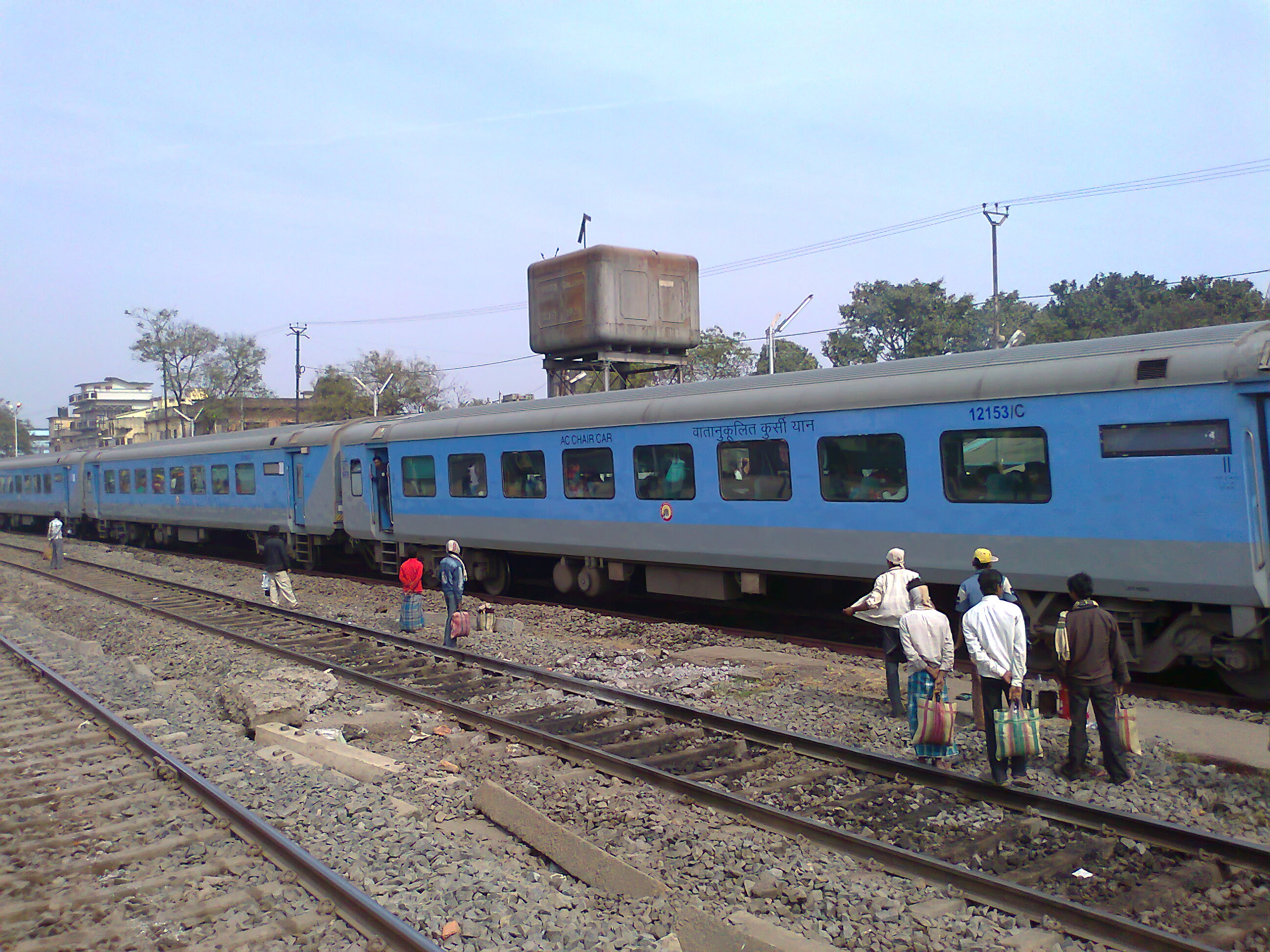 Blasting through Pakur